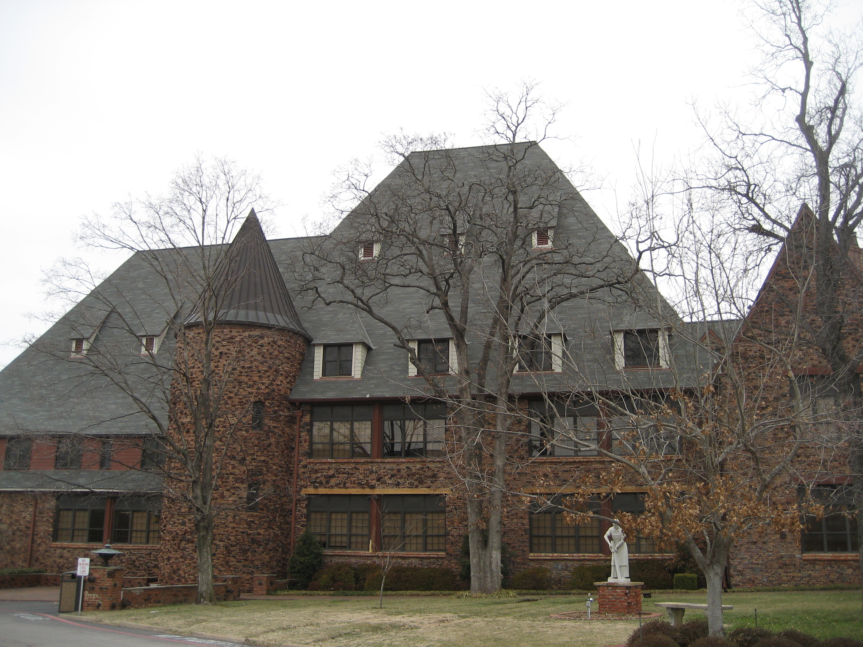 Cascia Hall in Tulsa, setting of the House of Night novel series.